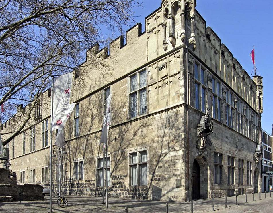 Gürzenich (municipal concert hall and multi-purpose festival hall), Köln, Germany